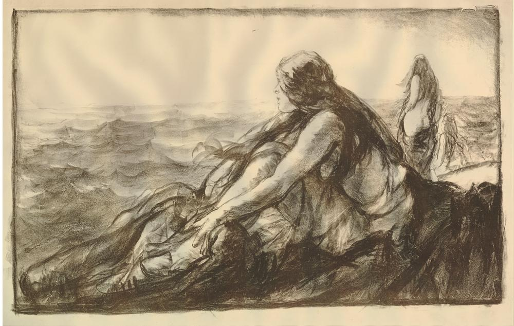 Two nude women, one seated with legs drawn up, looking out to sea Lithograph, printed in brownish ink, unique trial proof before colour added